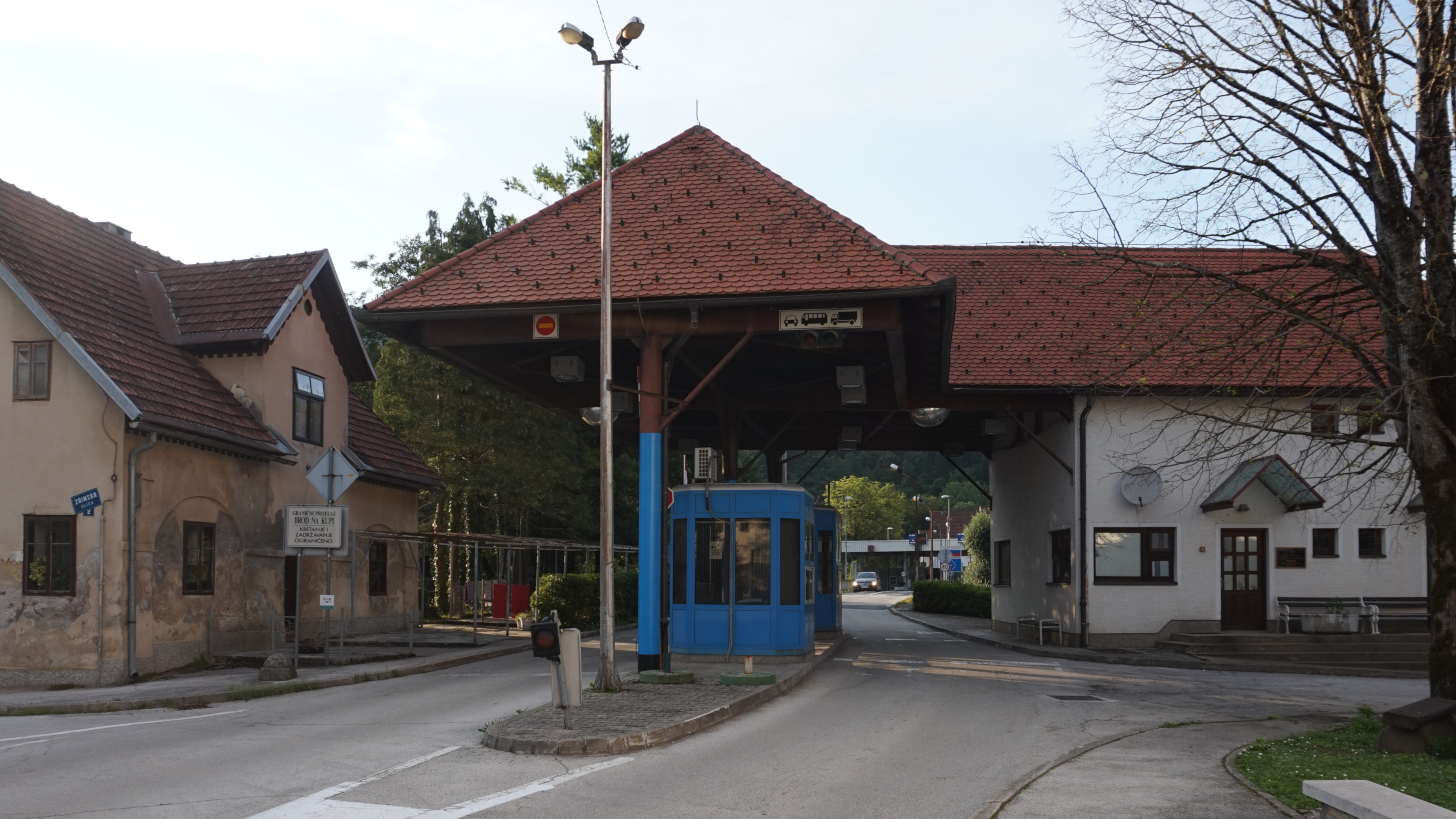 International border crossing Petrina (Slovenia)/Brod na Kupi (Croatia). The Croatian border checkpoint, which is abandoned as the Slovenian and Croatian police operate together at the Slovenian checkpoint.